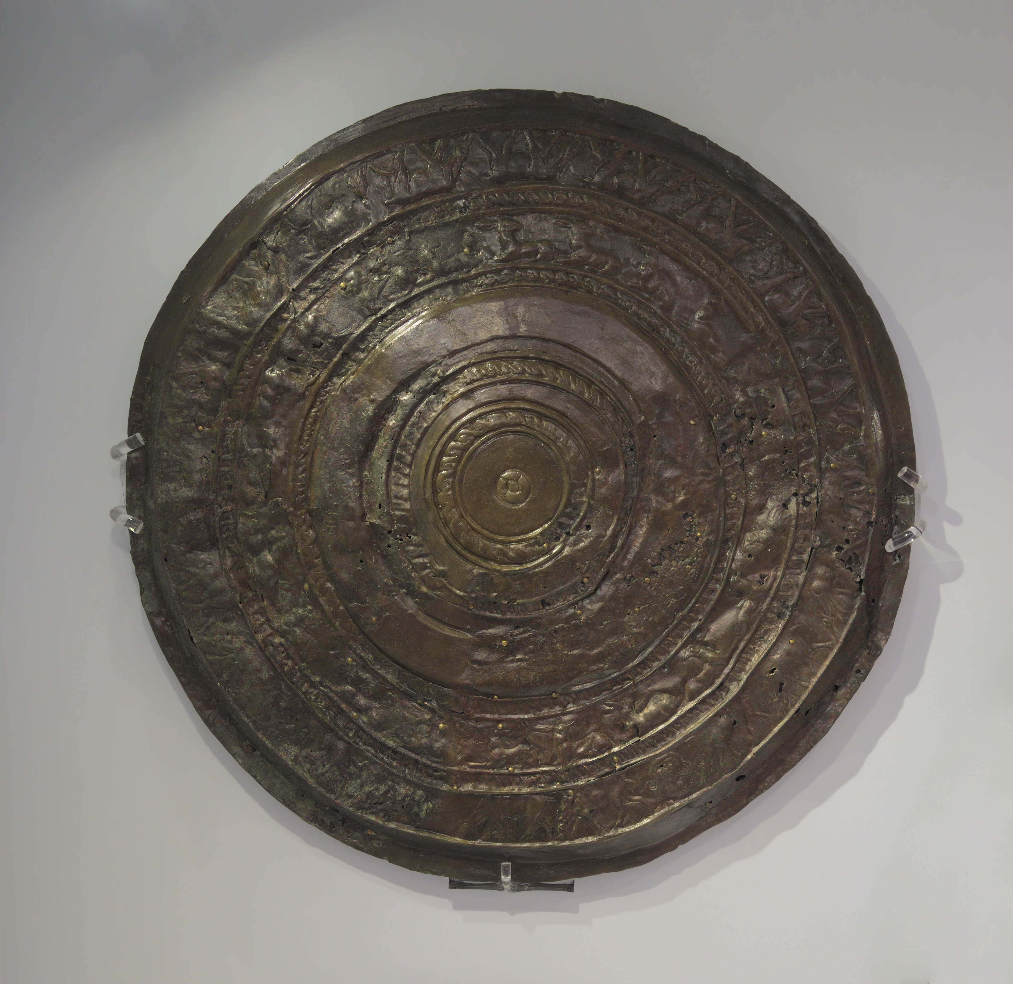 A bronze shield found at Temple of Diktaian Zeus, Palaikastro. Late 8th century BC, now at Archaeological Museum of Heraklion